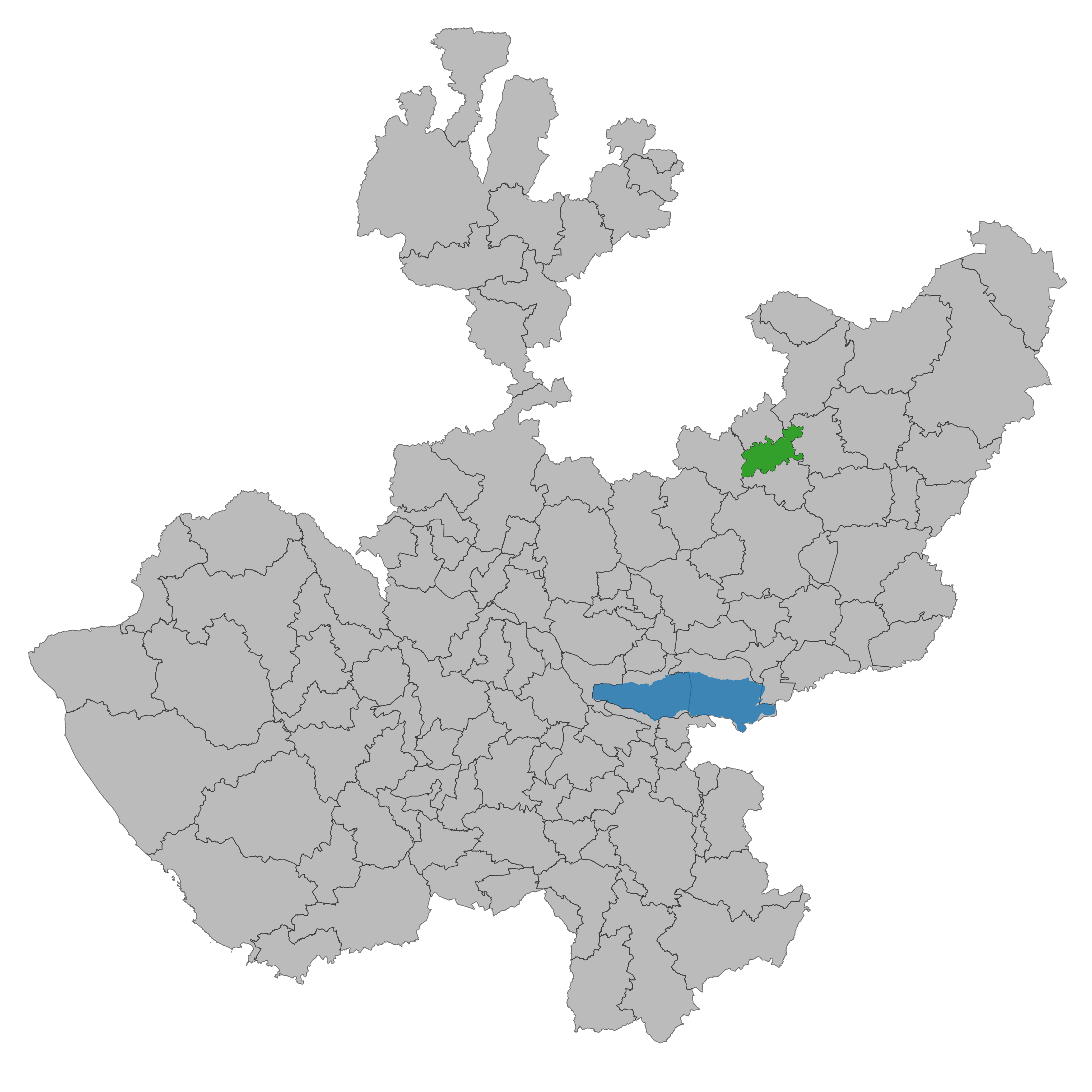 Municipality of Jalisco. Prepared with the software QGIS version 2.8.2 Wien & with information of SCINCE 2010 version 05/2013